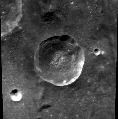 Clementine image of Guthnick crater